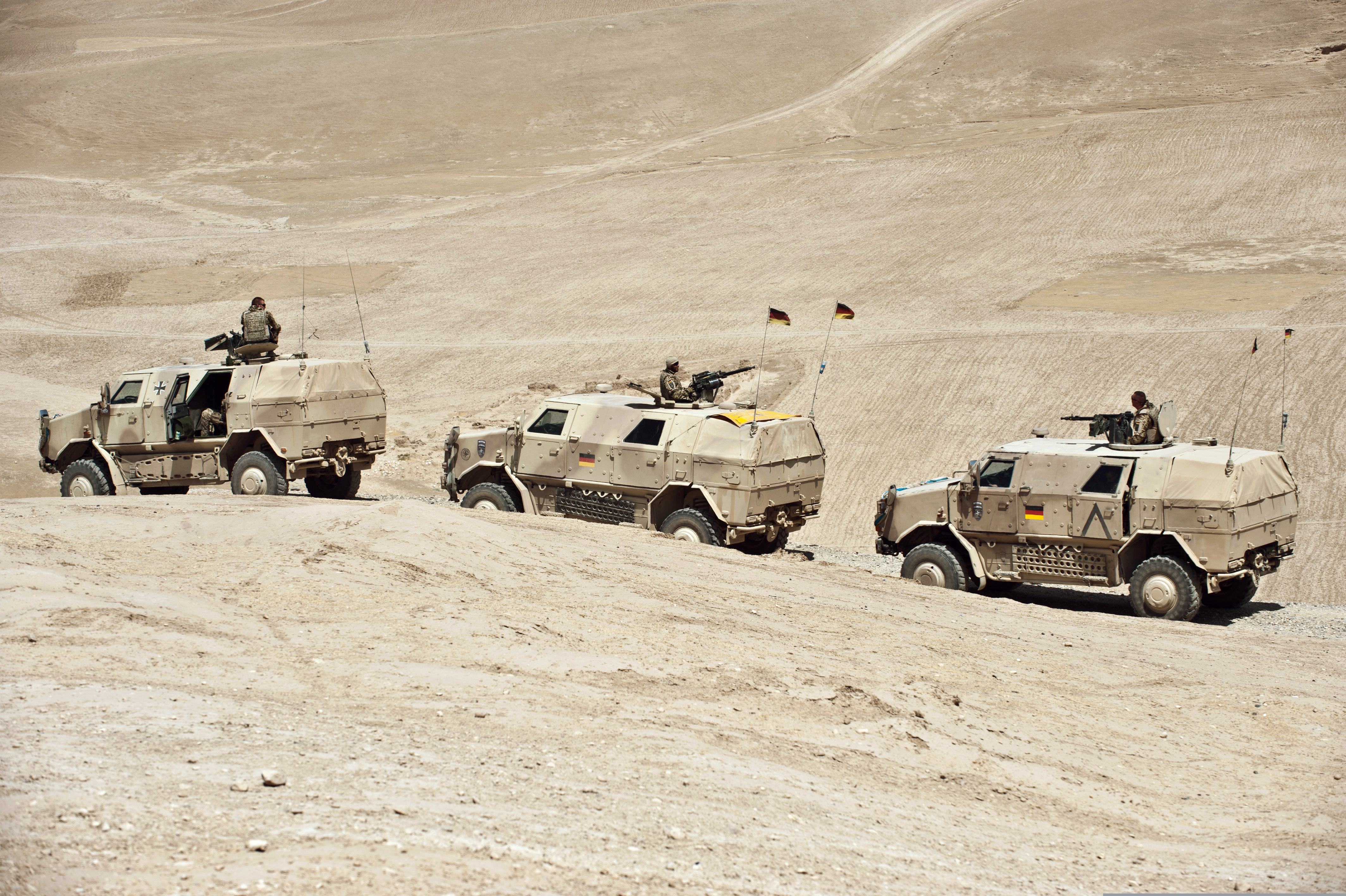 A convoy of German ATF Dingo mine-resistant, ambush-protected vehicles assigned to the International Security Assistance Force (ISAF) patrols the hills of northern Afghanistan outside Mazar-e-Sharif July 4, 2011. Soldiers assigned to ISAF, Regional Command-North, were deployed in support of Afghanistan to reduce insurgency, support growth of the Afghan National Security Forces, and facilitate governance and socioeconomic development.